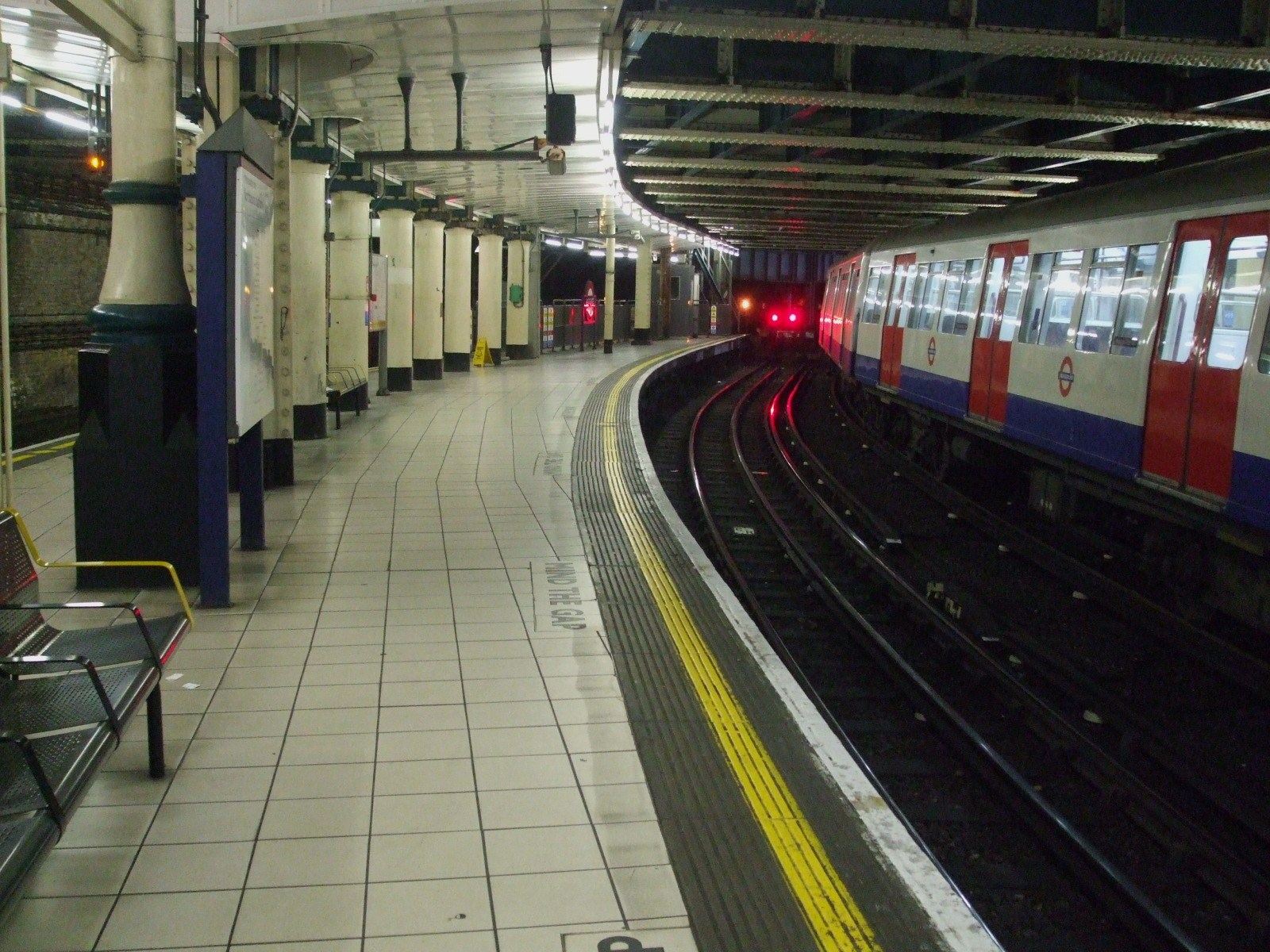 Aldgate tube station platform 2 (terminating Metropolitan line) looking south to buffers, with a train of A Stock awaiting departure in adjacent platform 3.